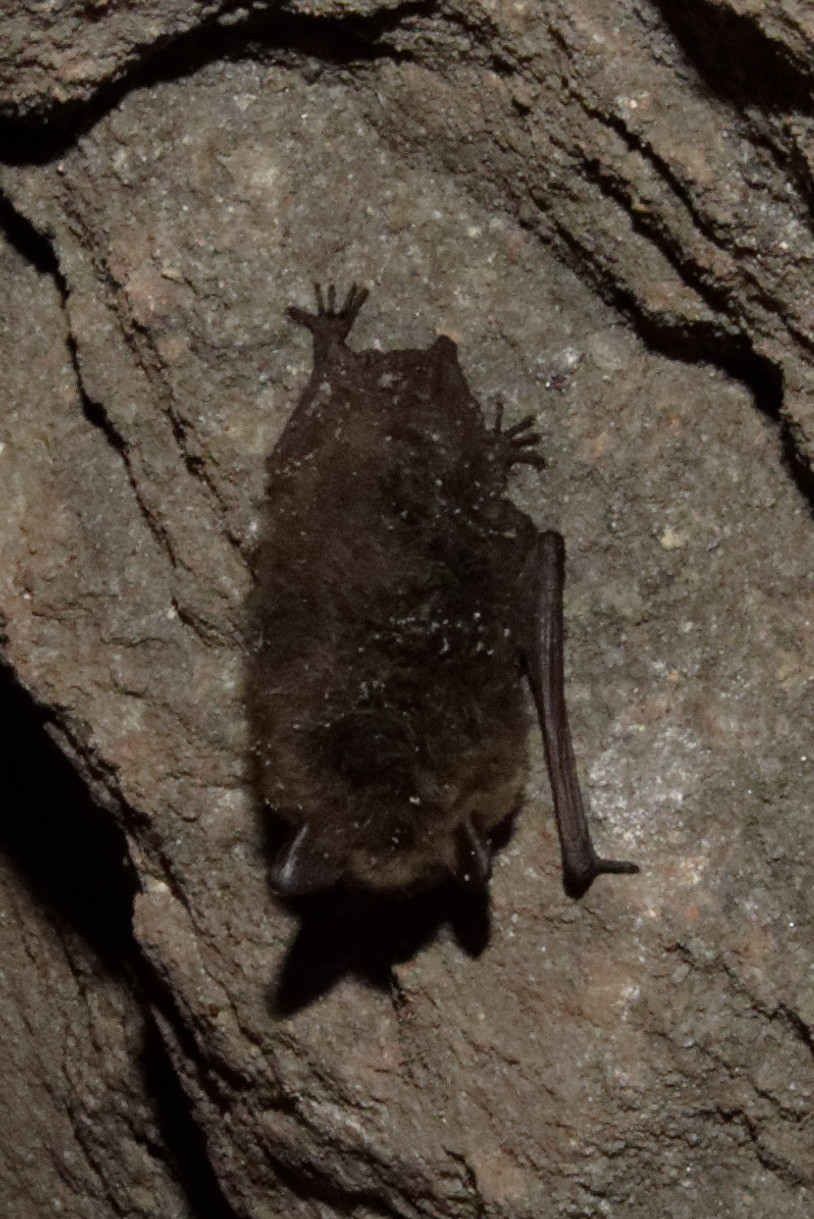 Fledermaus im Phillipsstollen des Briloner Eisenbergs The making of this document was supported by the Community-Budget of Wikimedia Germany.